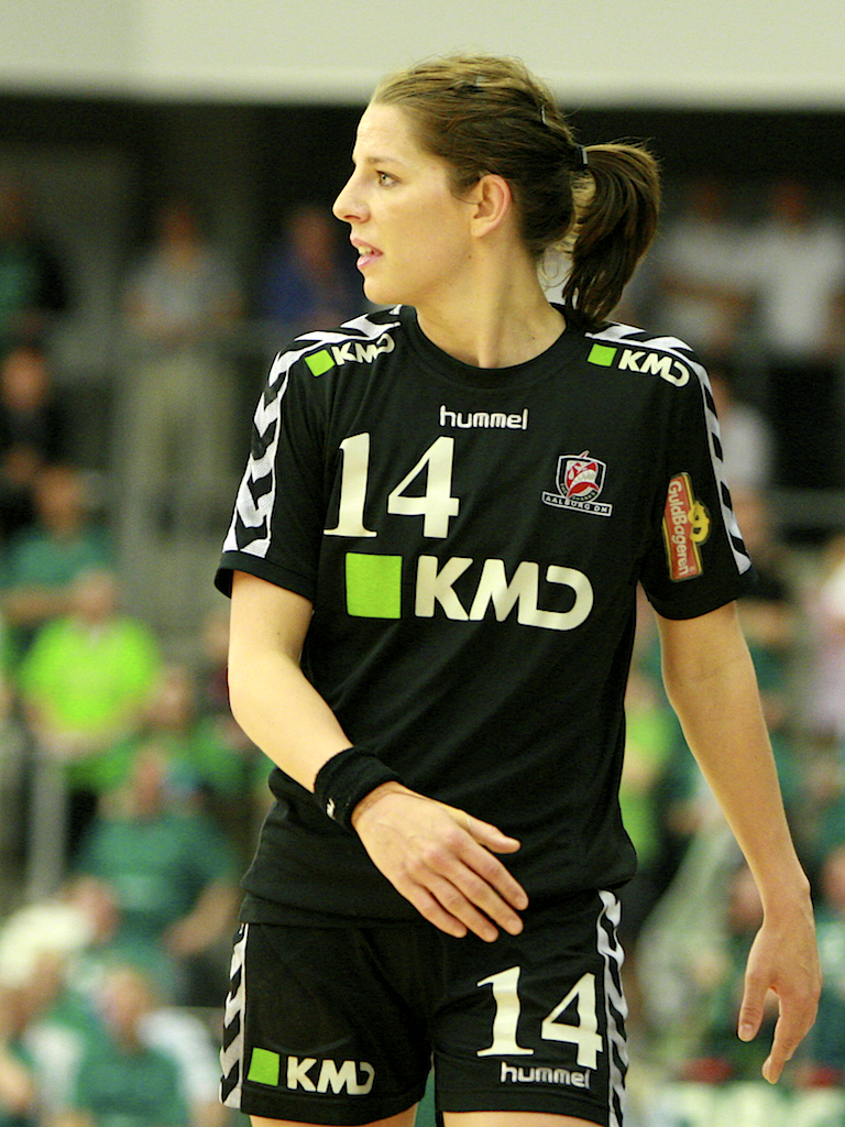 Matilda Boson from Aalborg DH.